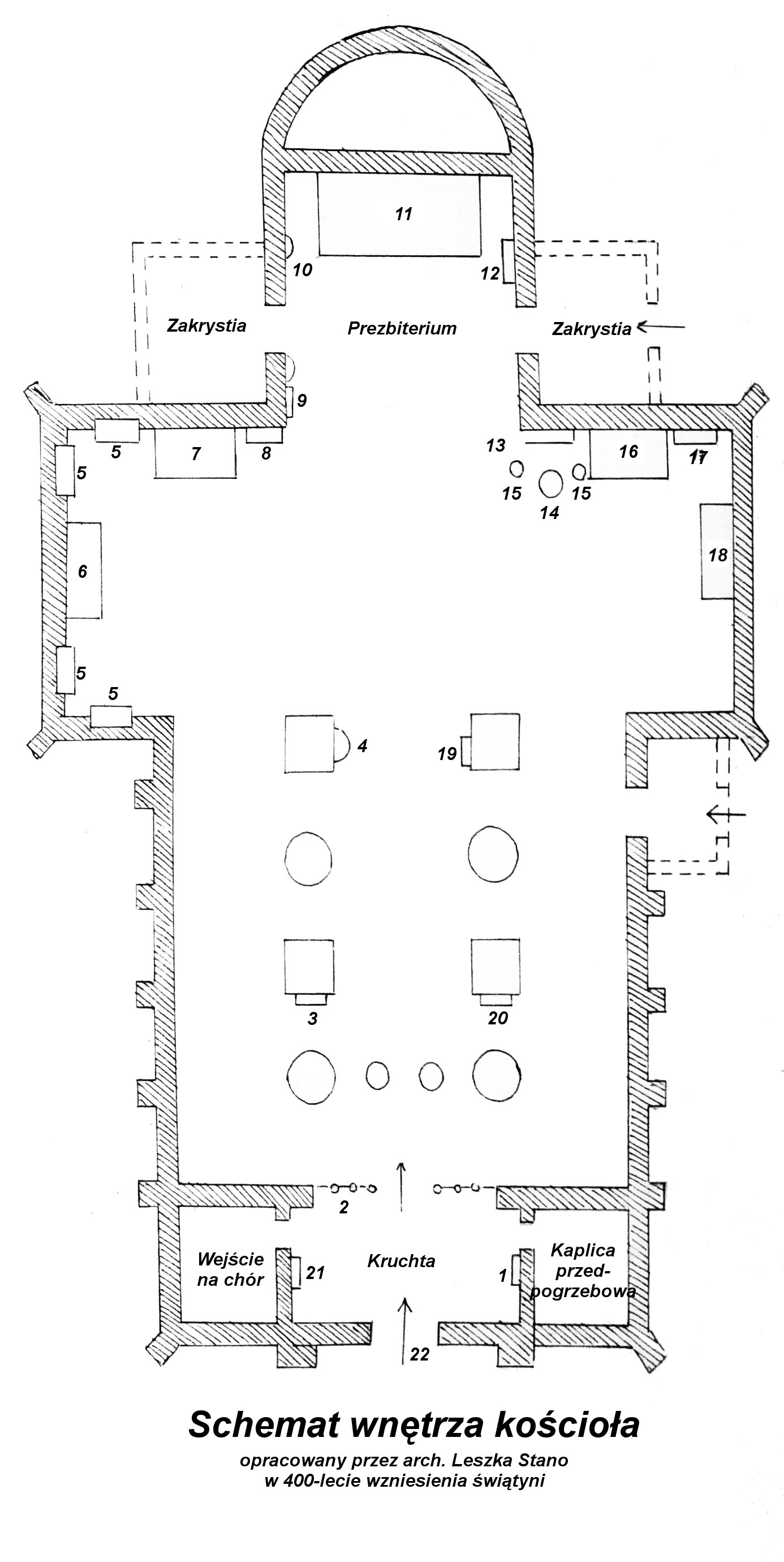 Picture schedule is stated in the church porch in the display case information. My own photo. Scheme made by the architect, Leszek Stano and given to the parish of St. Matthew in 1988 as part of the information about the history of the parish. Schematic probably the first time published on the web.